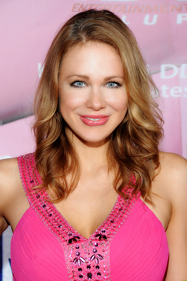 Maitland Ward, Culver City, California on May 31, 2014 - Photo by Glenn Francis of